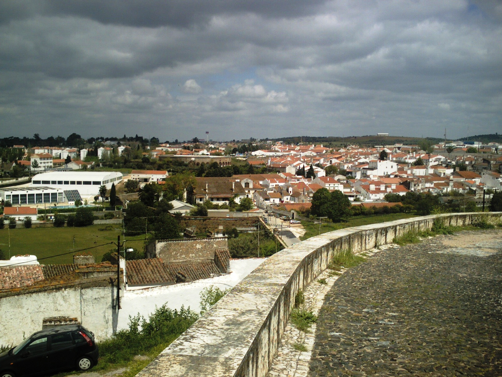 Estremoz town, Alentejo, Portugal